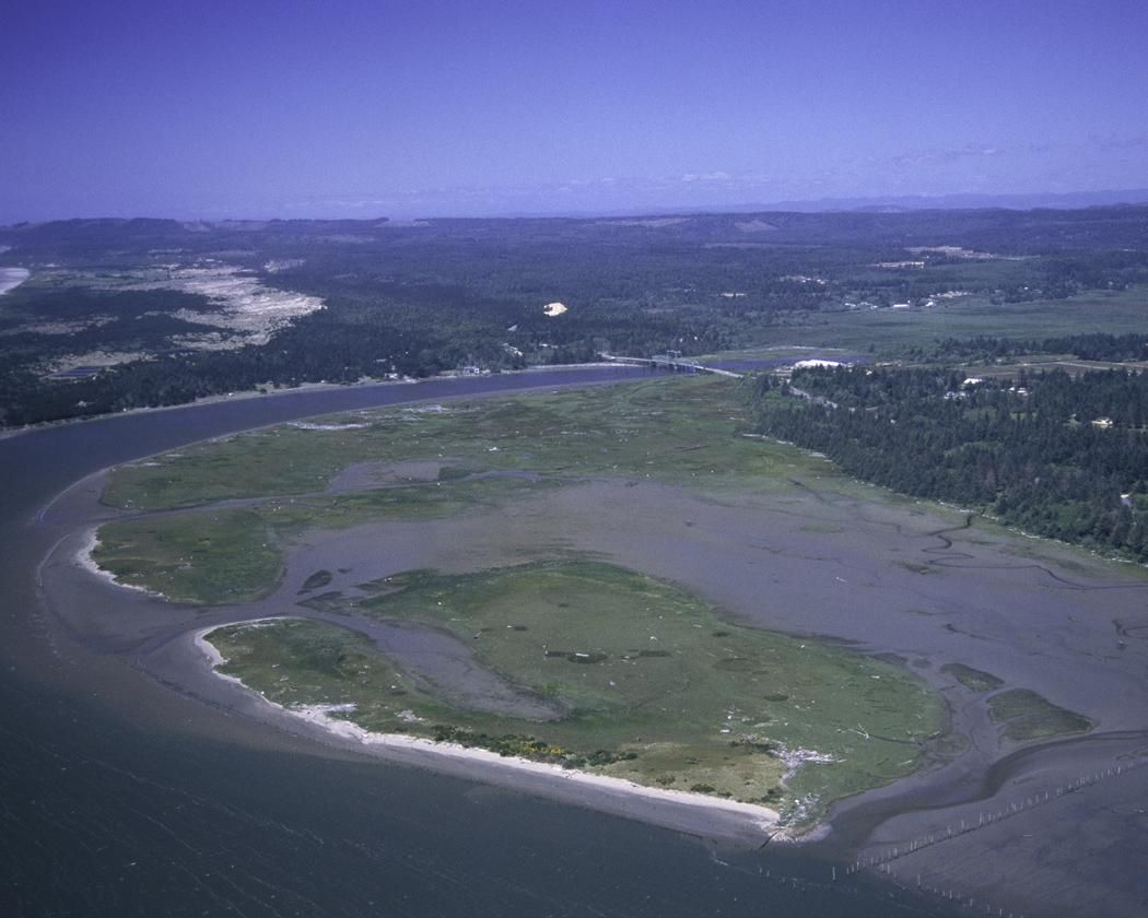 Aerial photograph of Bandon Marsh National Wildlife Refuge near Bandon, Oregon. The river seen in the image is the Coquille River close to its mouth.